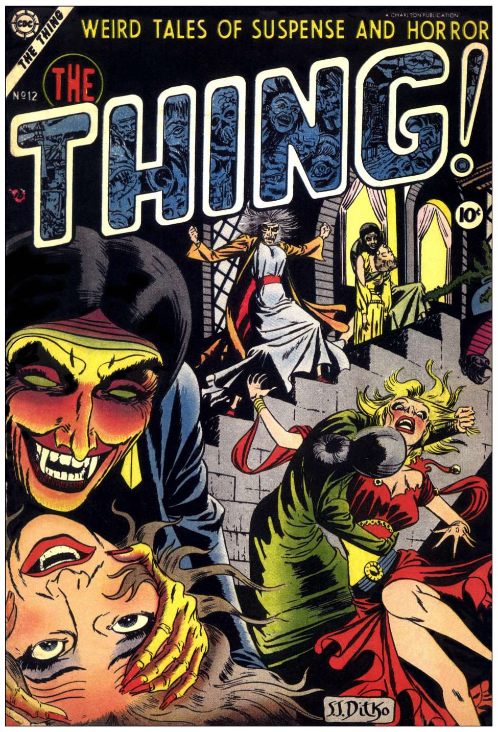 Cover of The Thing #12 (Feb. 1954). Art (pencils & inks) by Steve Ditko